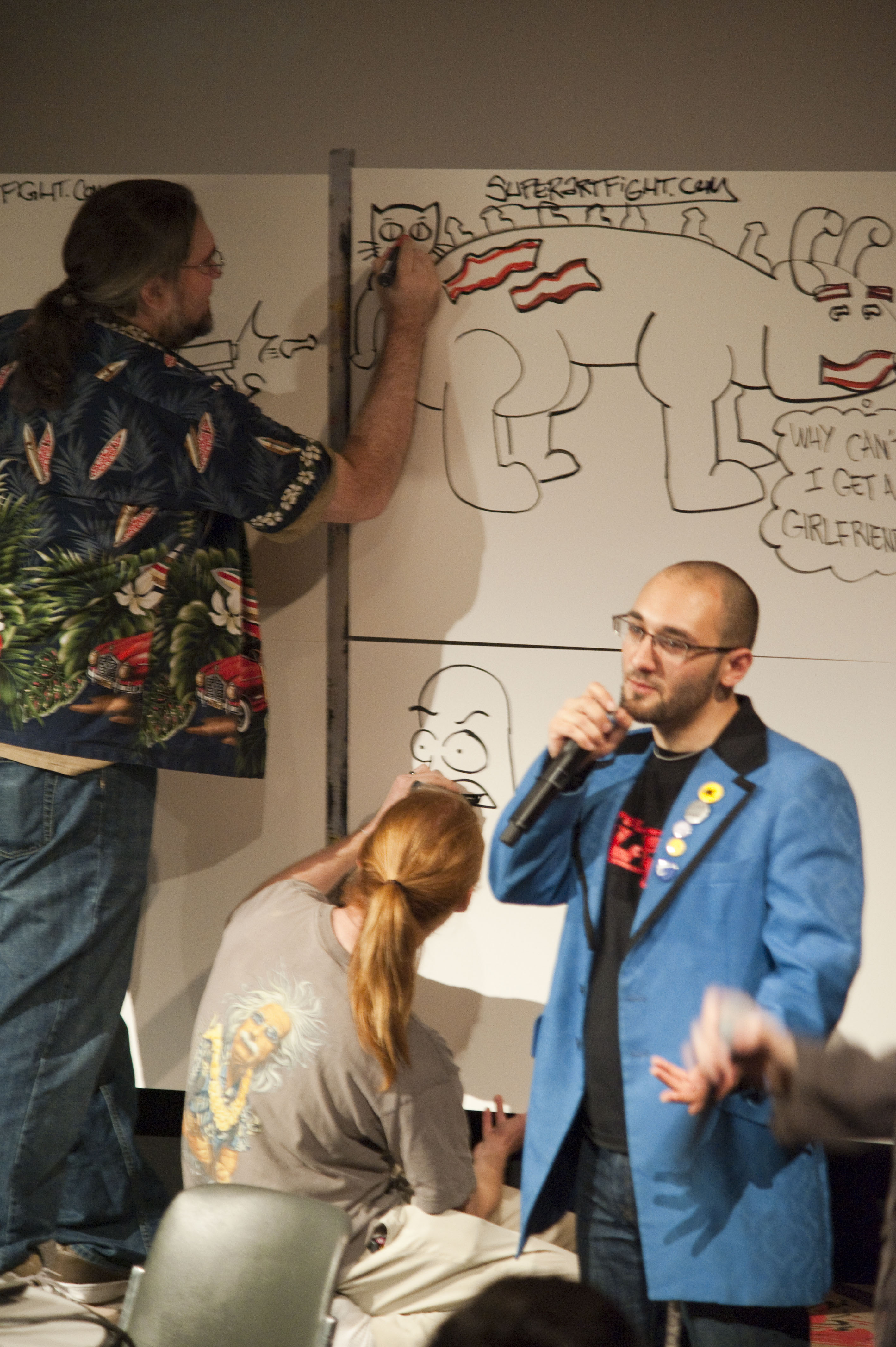 Yuko Ota (Johnny Wander) Ananth Panagariya (AppleGeeks) Tak Toyoshima (Secret Asian Man) Zach Weiner (Saturday Morning Breakfast Cereal) Rosscott Nover (Super Art Fight, The System) [Moderator]